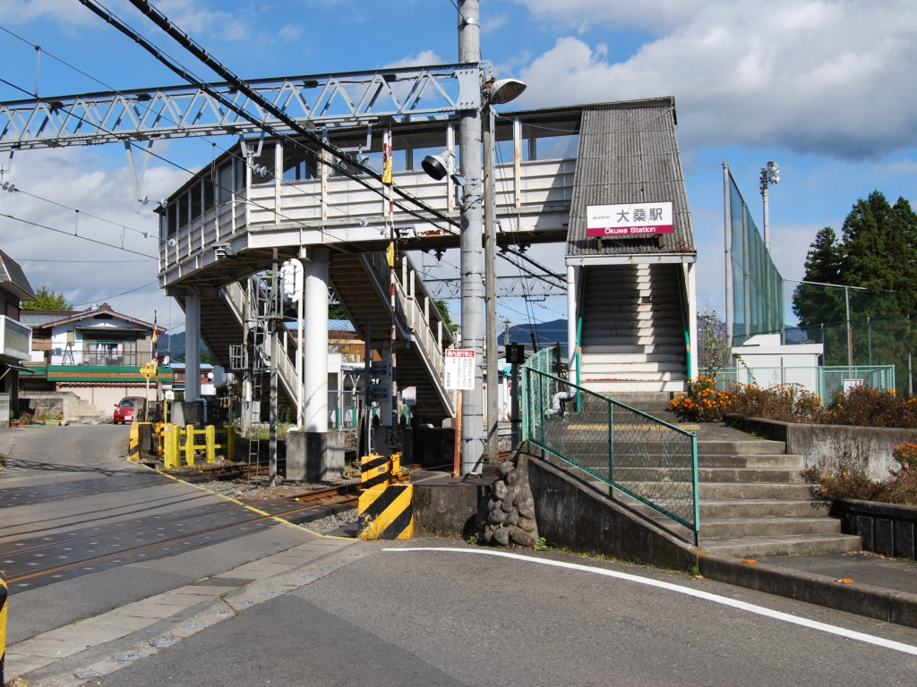 The station entrance on the east side of Ōkuwa Station on the Tobu Kinugawa Line in Tochigi Prefecture, Japan